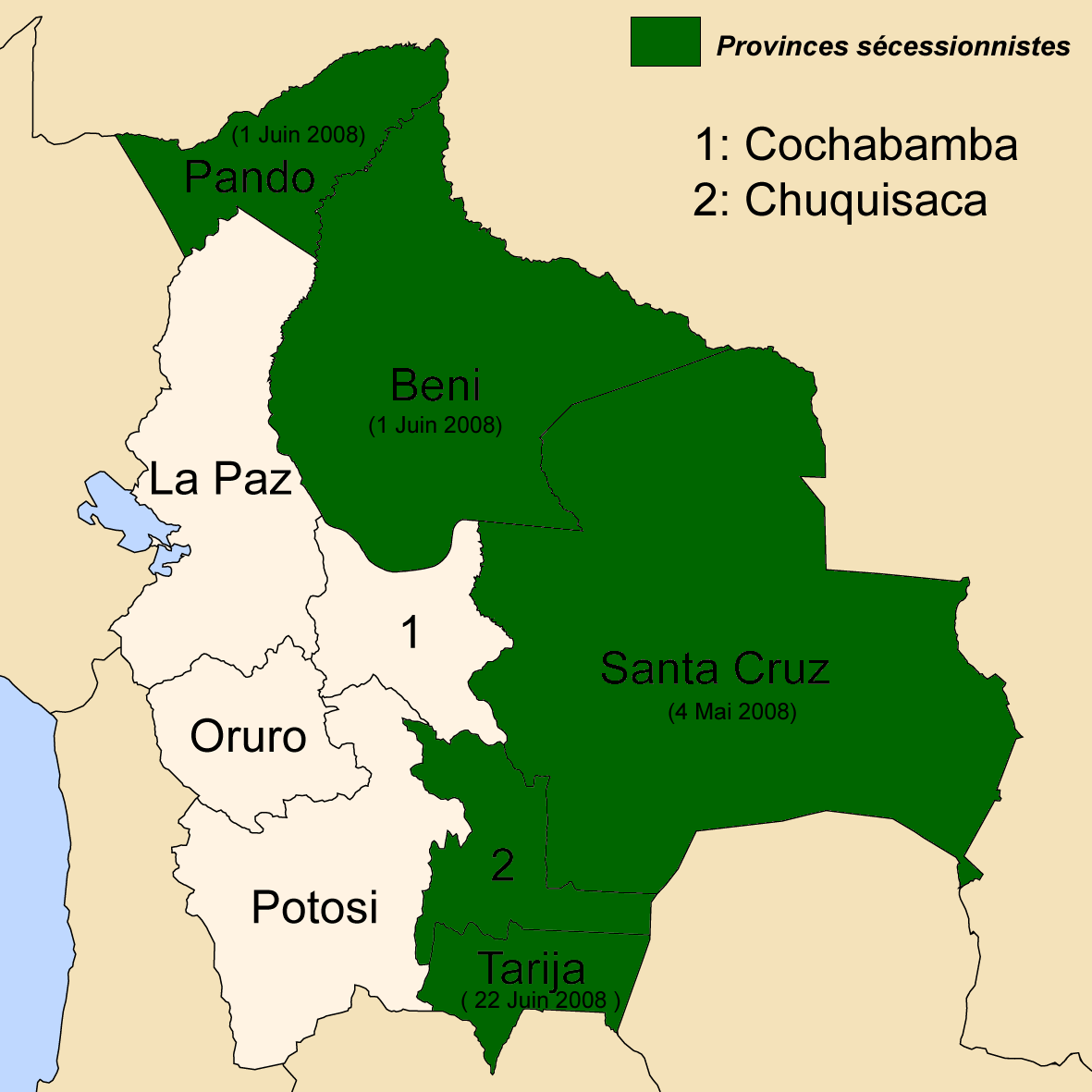 Secession in Bolivia